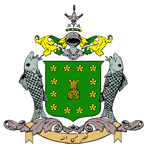 Bhopal State coat of arms; motto: Nasru Minullah This work is in the public domain in India because its term of copyright has expired. The Indian Copyright Act applies in India, to works first published in India. According to The Indian Copyright Act, 1957 (Chapter V Section 25), Anonymous works, photographs, cinematographic works, sound recordings, government works, and works of corporate authorship or of international organizations enter the public domain 60 years after the date on which they were first published, counted from the beginning of the following calendar year (ie. as of 2020, works published prior to 1 January 1960 are considered public domain). Posthumous works (other than those above) enter the public domain after 60 years from publication date. Any other kind of work enters the public domain 60 years after the author's death. Text of laws, judicial opinions, and other government reports are free from copyright. Photographs created before 1960 are in the public domain 50 years after creation, as per the Copyright Act 1911. This file may not be in the public domain outside India. The creator and year of publication are essential information and must be provided. See Wikipedia:Public domain and Wikipedia:Copyrights for more details. This image shows a flag, a coat of arms, a seal or some other official insignia. The use of such symbols is restricted in many countries. These restrictions are independent of the copyright status.